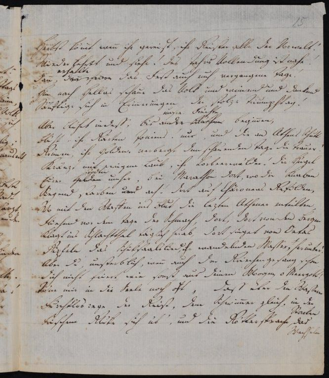 Manuscript of Friedrich Hölderlin: Der Archipelagus, page 15. From Homburg